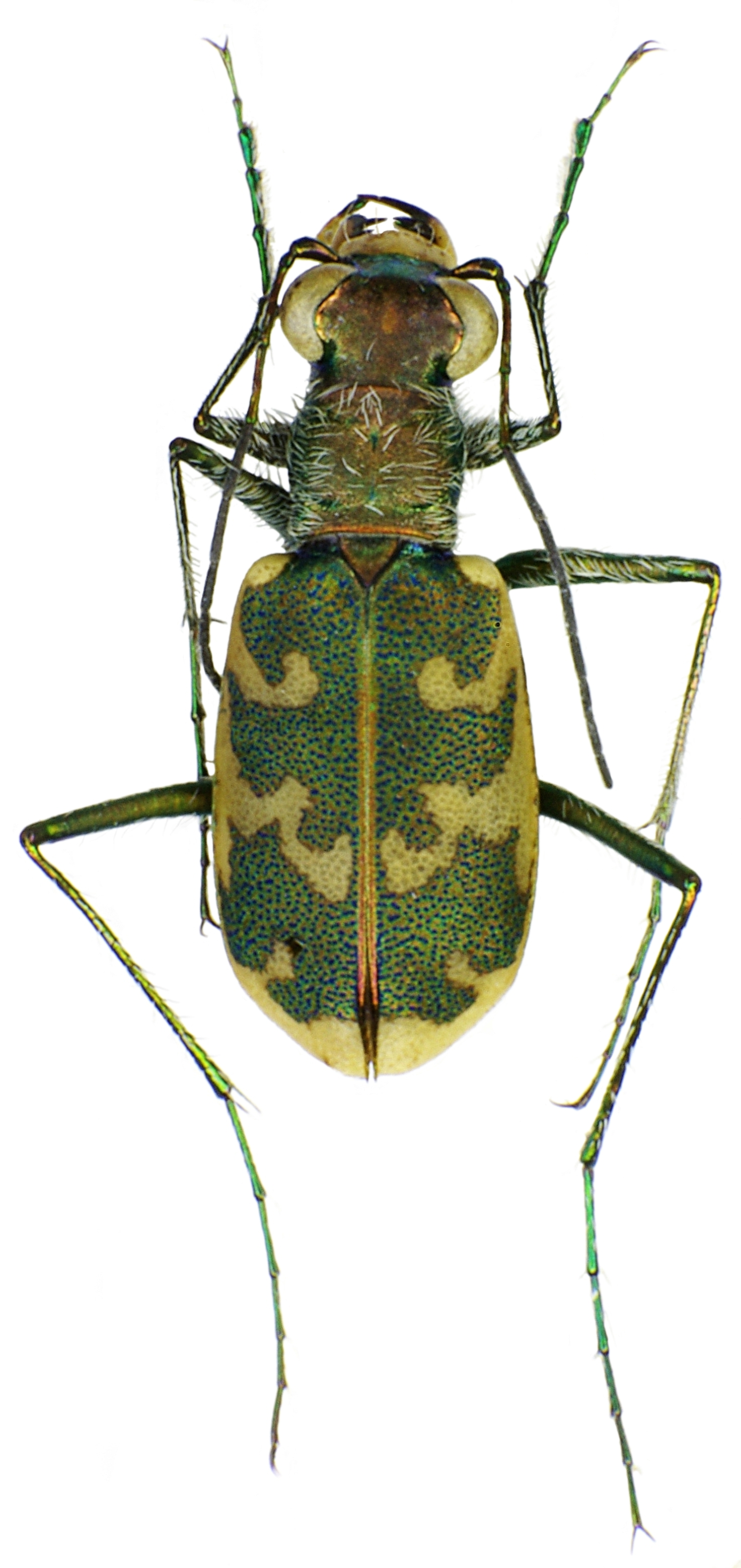 rotaded version of Cicindela arenaria viennensis bl.jpg